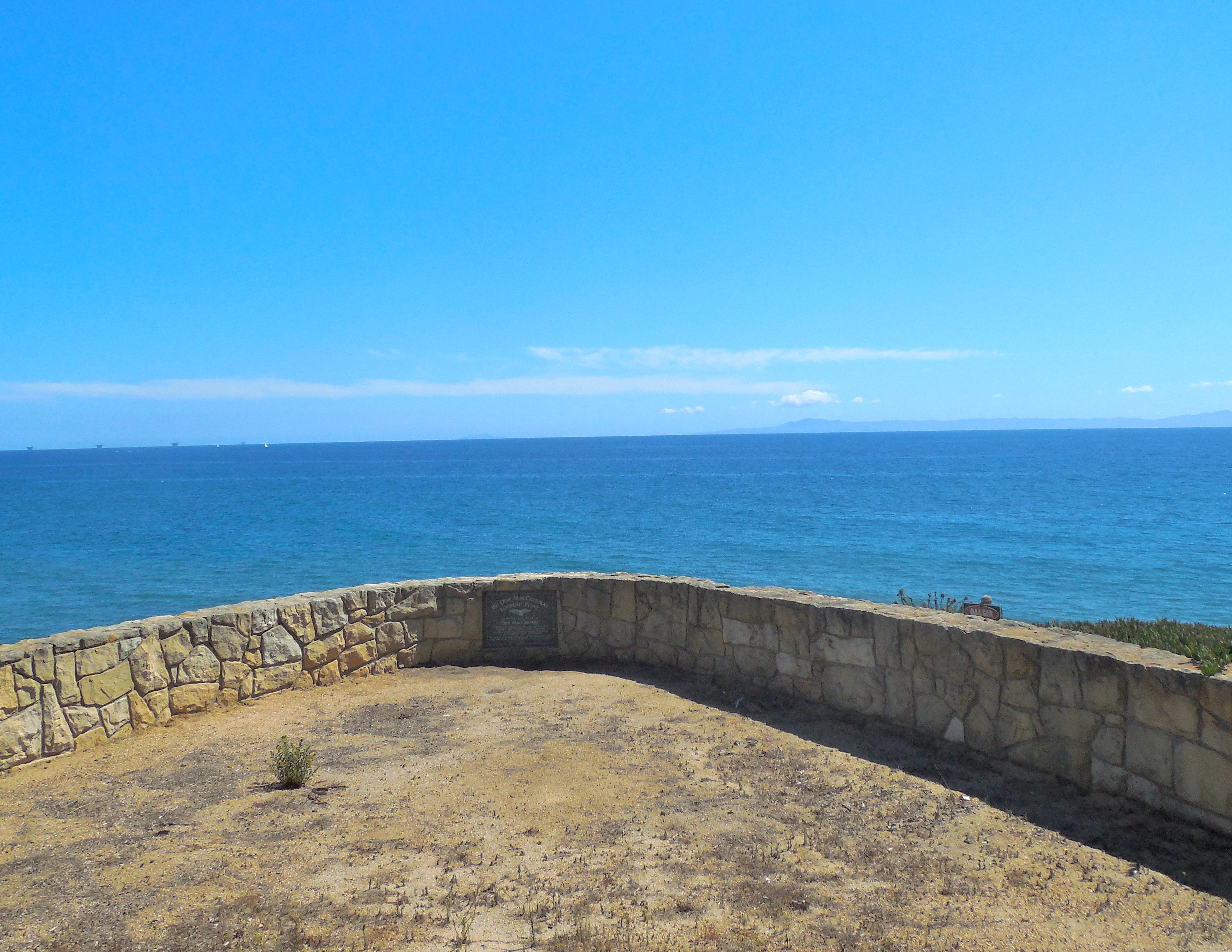 MacGillivray Point lookout (looking south) along the bluff of Shoreline Park in Santa Barbara, California, 16 Sep 2015